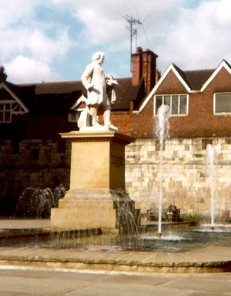 Statue of William Etty outside York City Art Gallery